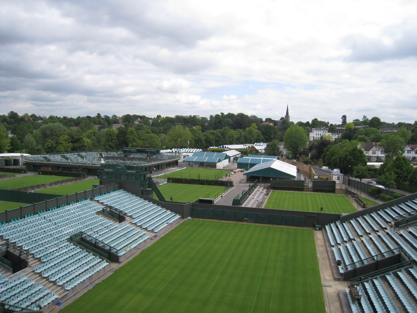 Old court #2. Now known as court #3 in 2009 before it was demolished in time for 2011.